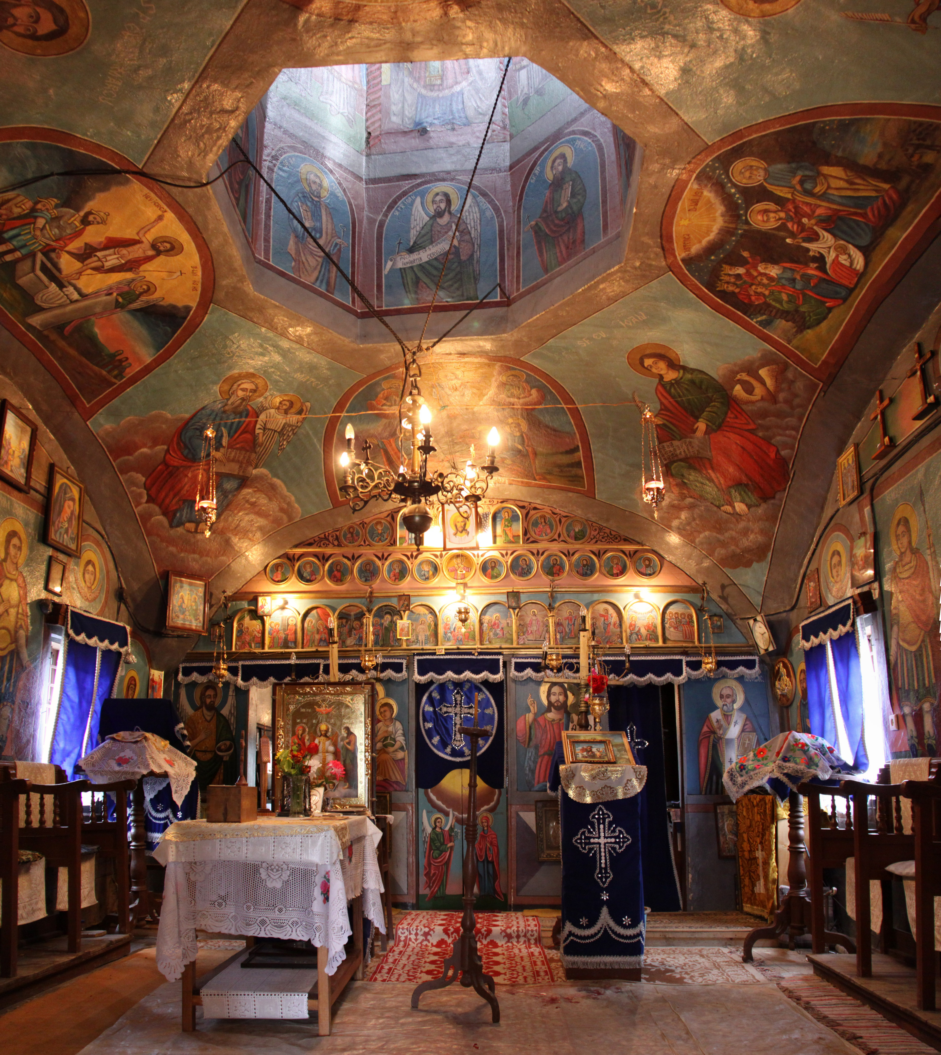 Mamu, Vâlcea county, Romania: the wooden church.